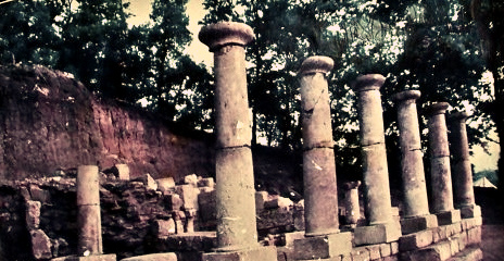 Horizon exscavated Starosel BG